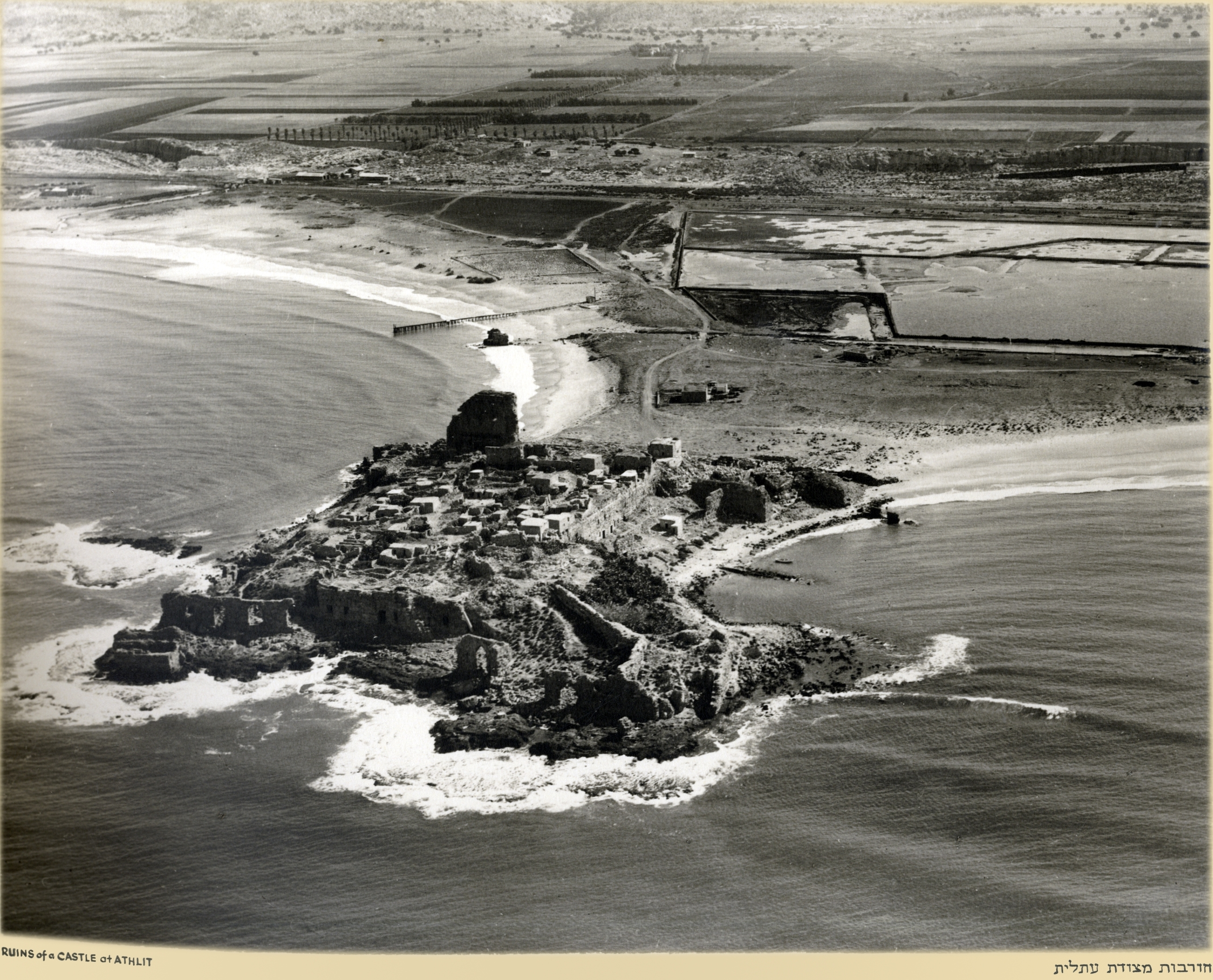 Z. Kluger. Erez Israel from the air - 1937-38